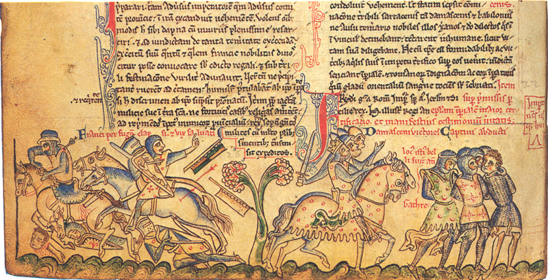 Death of teh French at Gaza